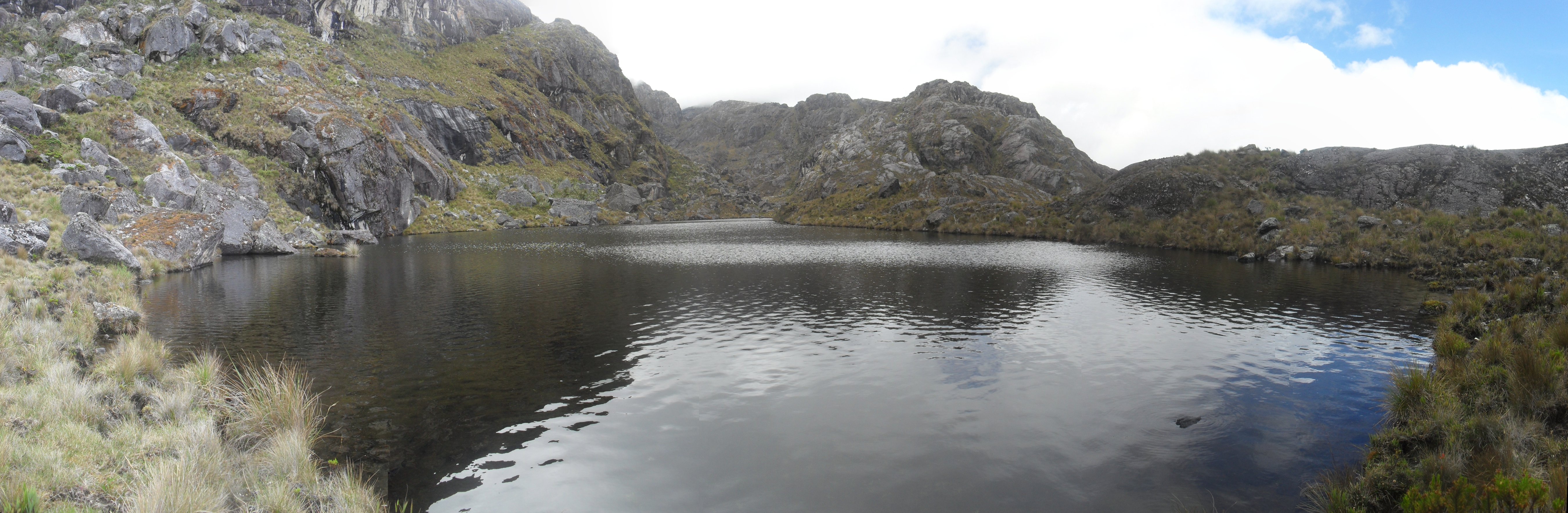 Lake El Toro ("The Bull") in the Protected area "Sisavita", Norte de Santander, Colombia